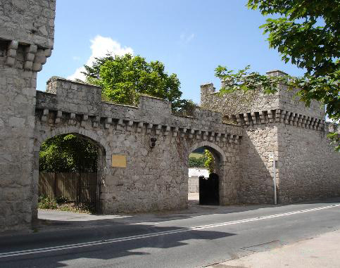 Gwrych Castle Gatehouse. Gatehouse to the 19th century Gwrych Castle on the A547